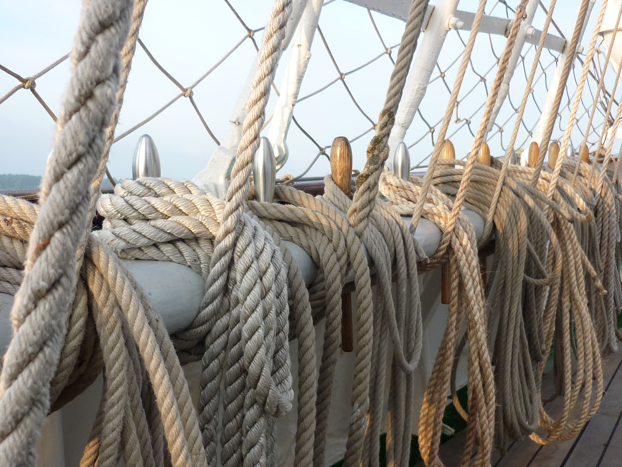 Belaying pin rail on starboard, SSS Greif.